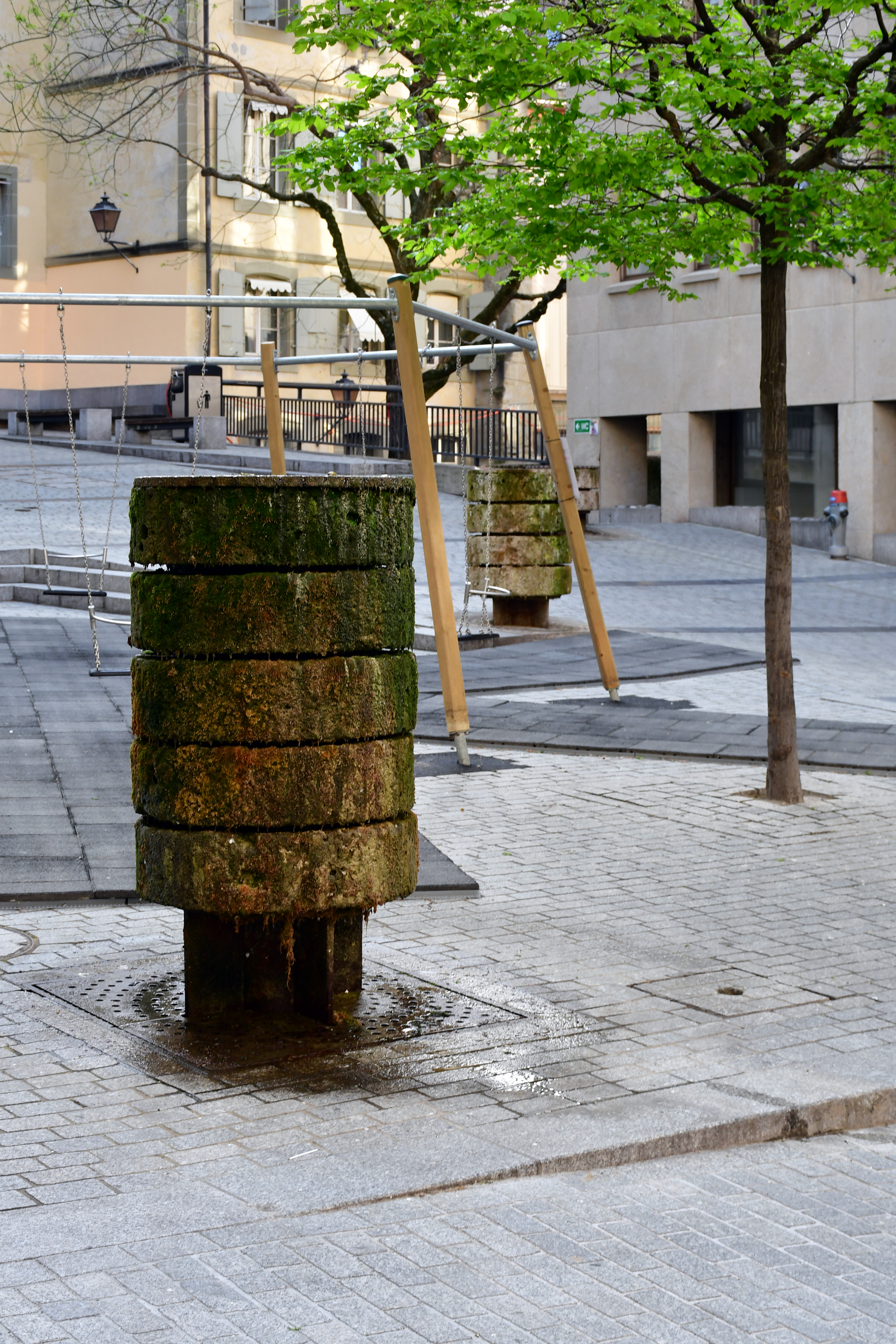 Fountains at Place de la Louve, in Lausanne (Switzerland). Created by the architect from Geneva Georges Descombes, they form a line showing the course of the Louve river that used to run through the city until the XIXth century.